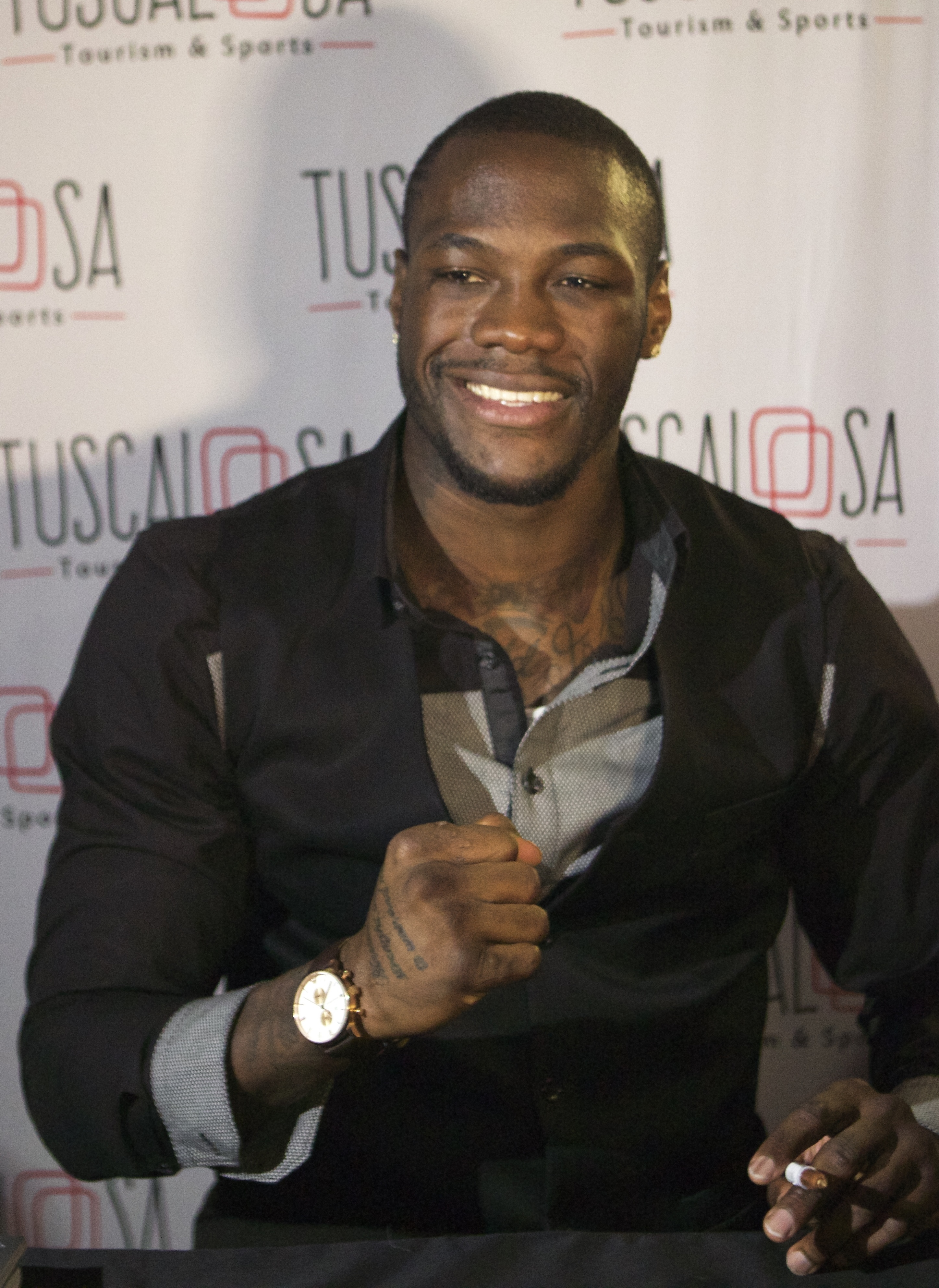 Boxer Deontay Wilder on January 8, 2015.